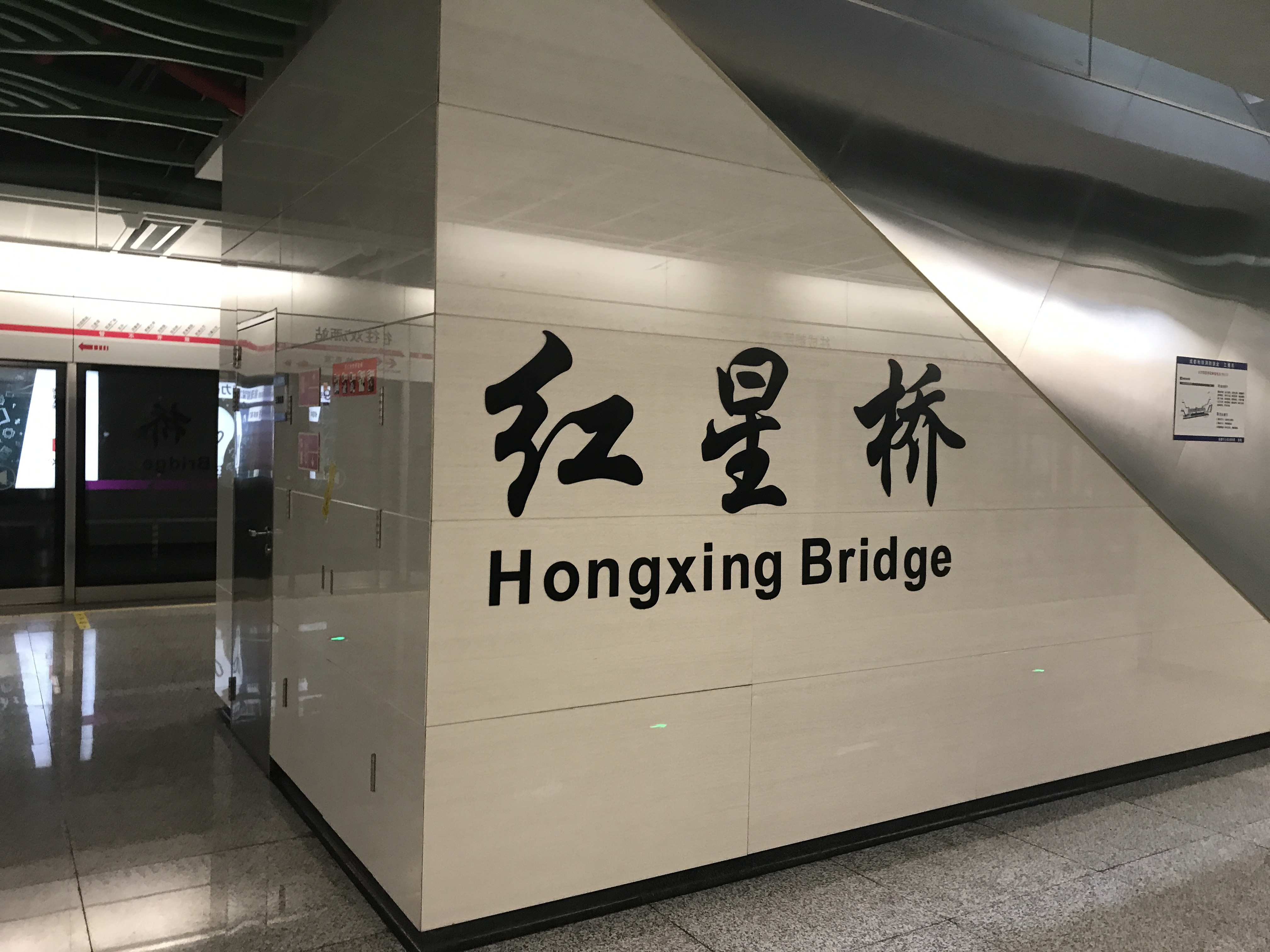 Platform of Hongxing Bridge Station, Chengdu Metro